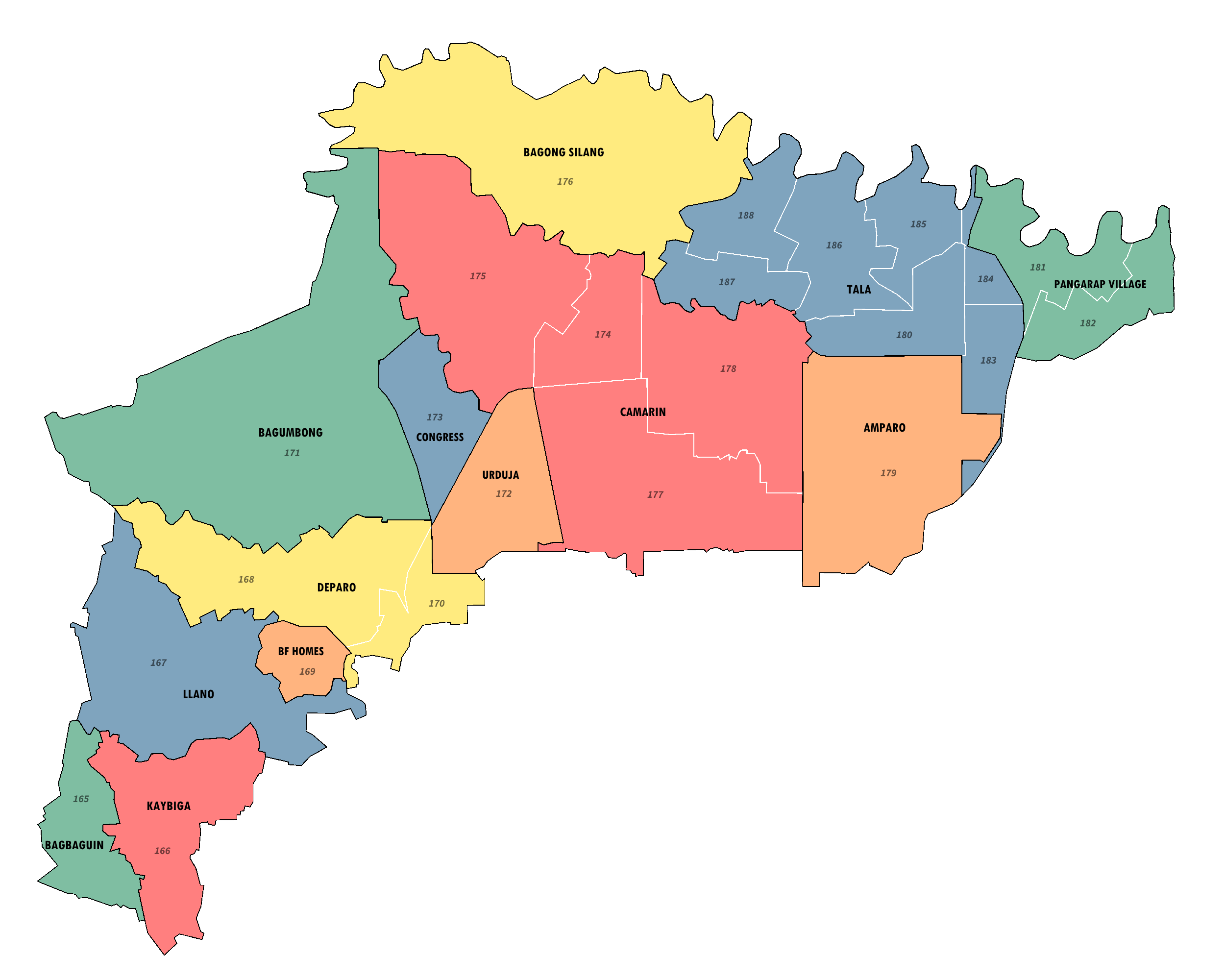 North Caloocan Barangay Map with Area Names